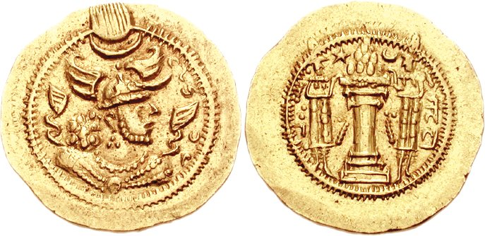 Coin of Peroz I, Sasanian king